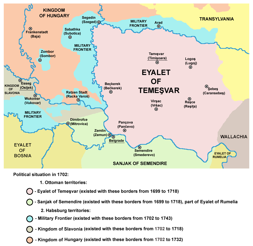 map of the Eyalet of Temesvar and Military Frontier in 1702.